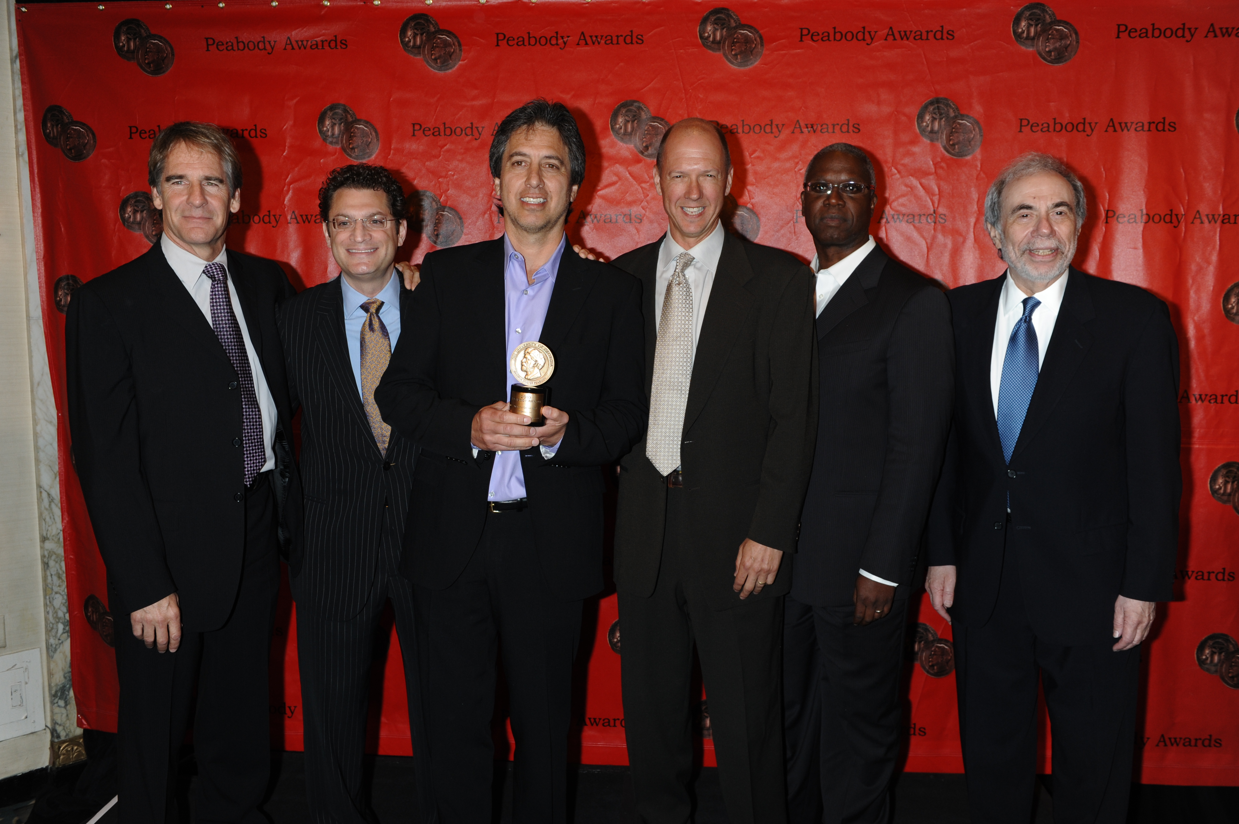 PHOTO CREDIT: ANDERS KRUSBERG / PEABODY AWARDS Scott Bakula, Rory Rosegarten, Ray Romano, Mike Royce, Andre Braugher and Cary Hoffman 70th Annual Peabody Awards Luncheon Waldorf=Astoria Hotel May 23, 2011